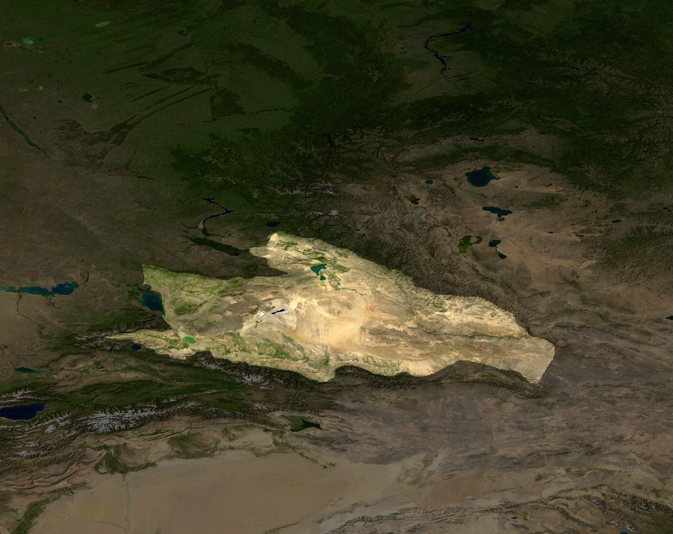 Area in Dzungaria.